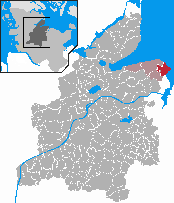 Locator maps of municipalities in Schleswig-Holstein - District Rendsburg-Eckernförde